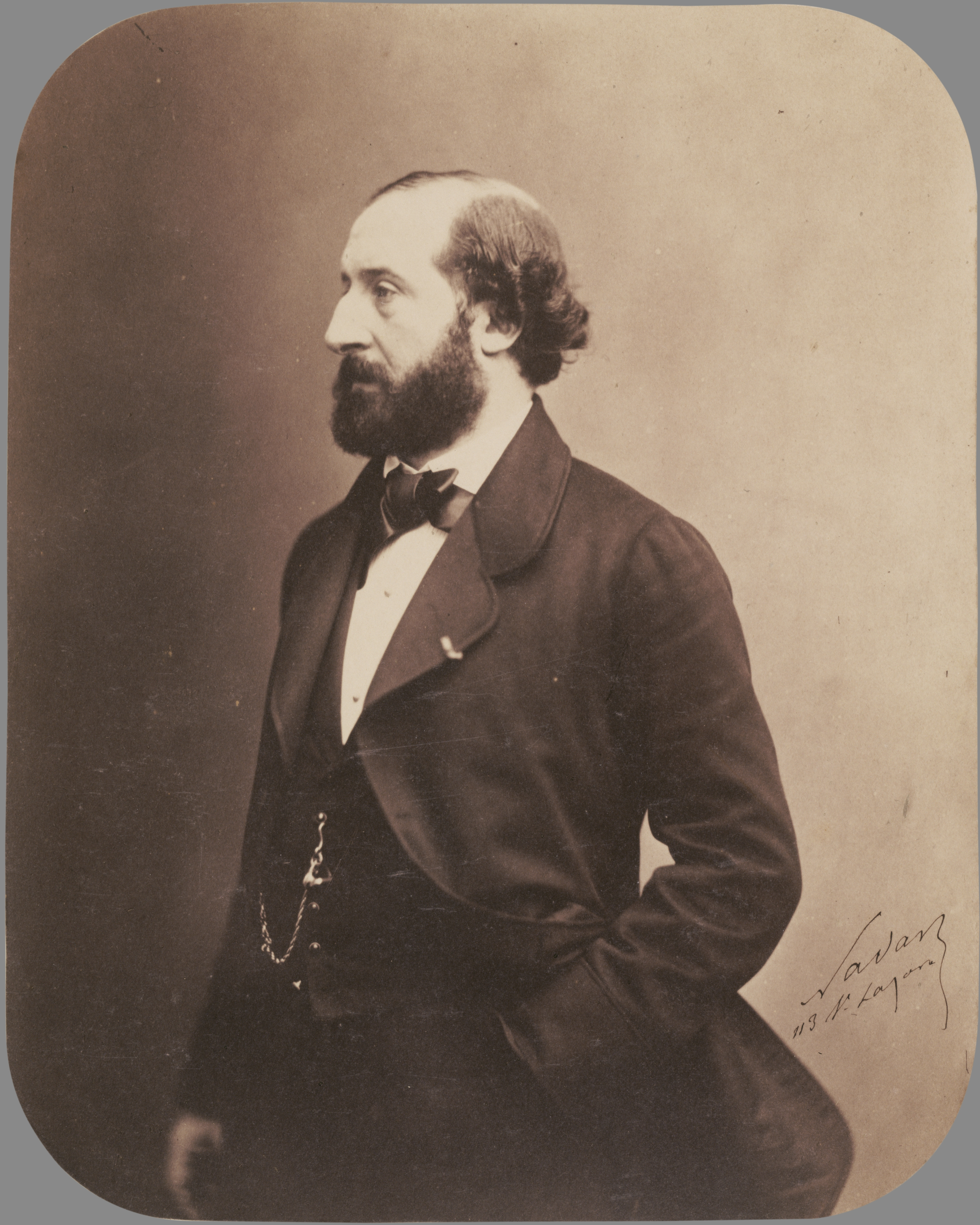 Émile Augier. Image: 23.7 x 18.7 cm (9 5/16 x 7 3/8 in.) Mount: 42.7 x 31.1 cm (16 13/16 x 12 1/4 in.). Signed in ink, recto of print: "Nadar/ 113 R Lazare". Inscribed in ink on recto of mount: "Emile Augier".